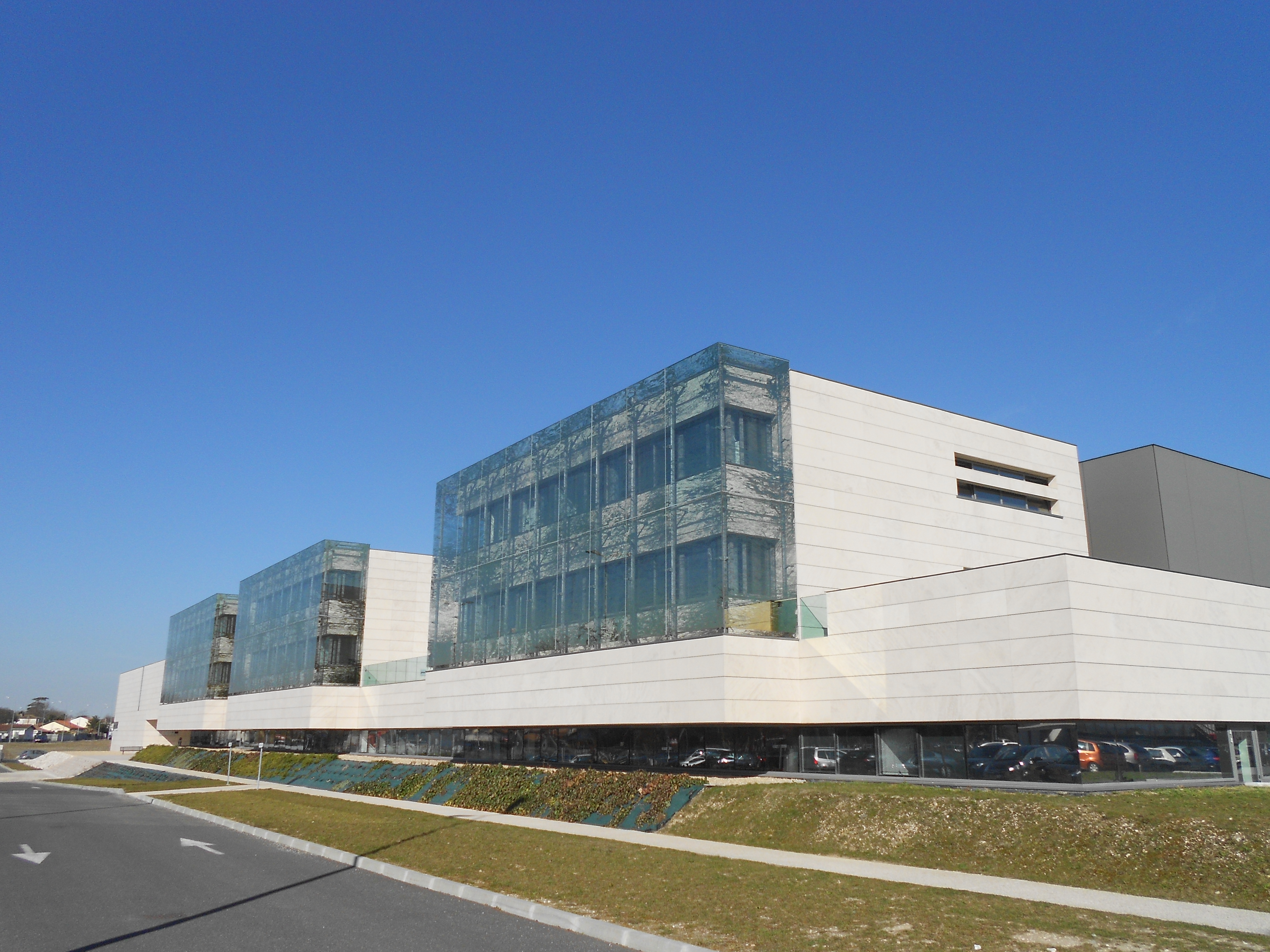 The Institut des Sciences de la Vigne et du Vin Bordeaux Aquitaine (ISVV) in Villenave-d'Ornon, France, in February 2012.